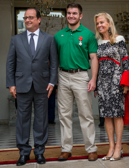 Alek Skarlatos (centered) with French President François Hollande and United States Ambassador to France Jane Hartley.